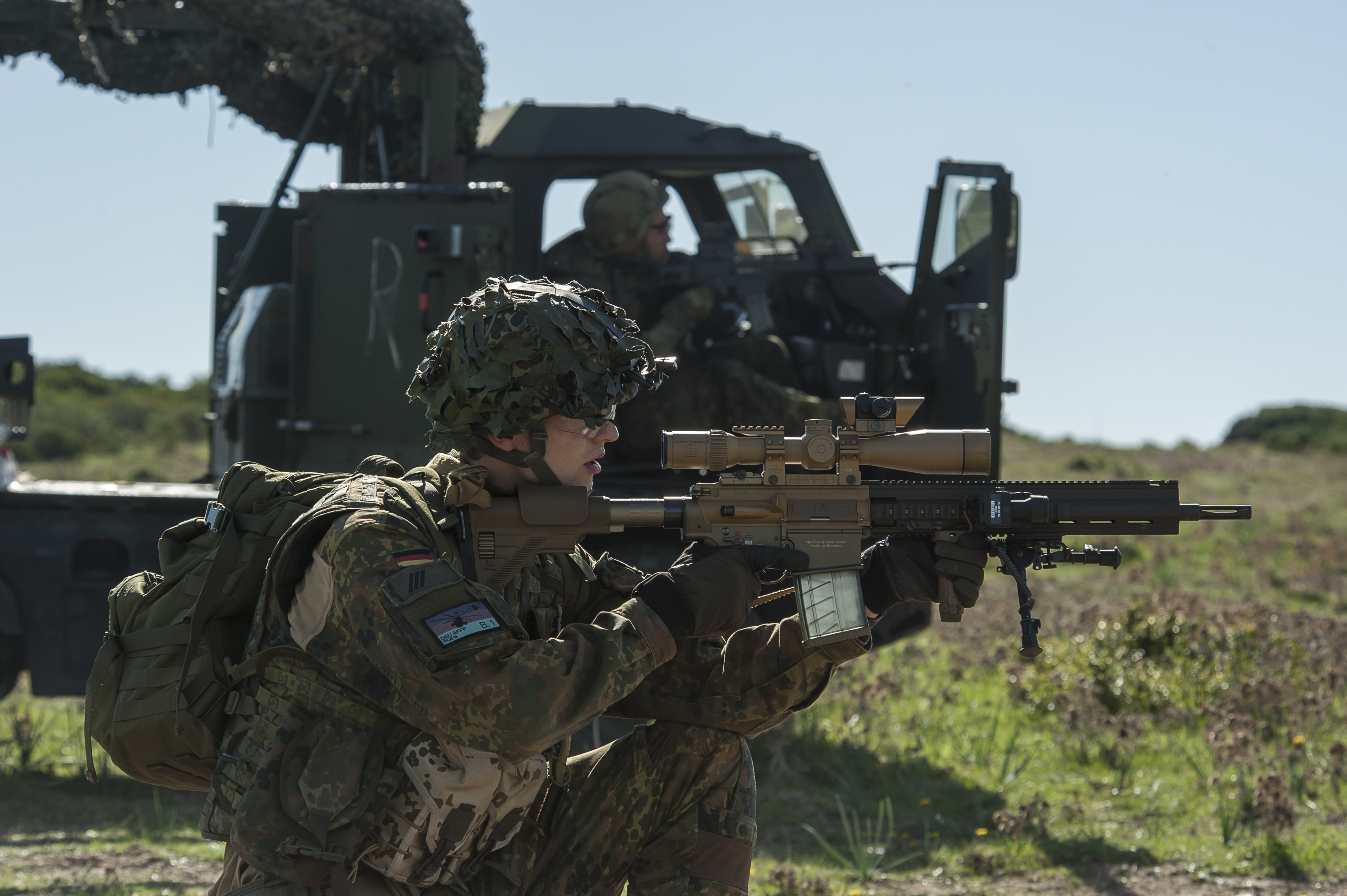 CIMIC joint training with German Air Force and Italian Carabinieri at Capo Teulada on October 30, 2015 during Trident Juncture 15. (NATO Local PAO Capo Teulada Esercitazione TRJE15) NATO photo by Alessio Ventura